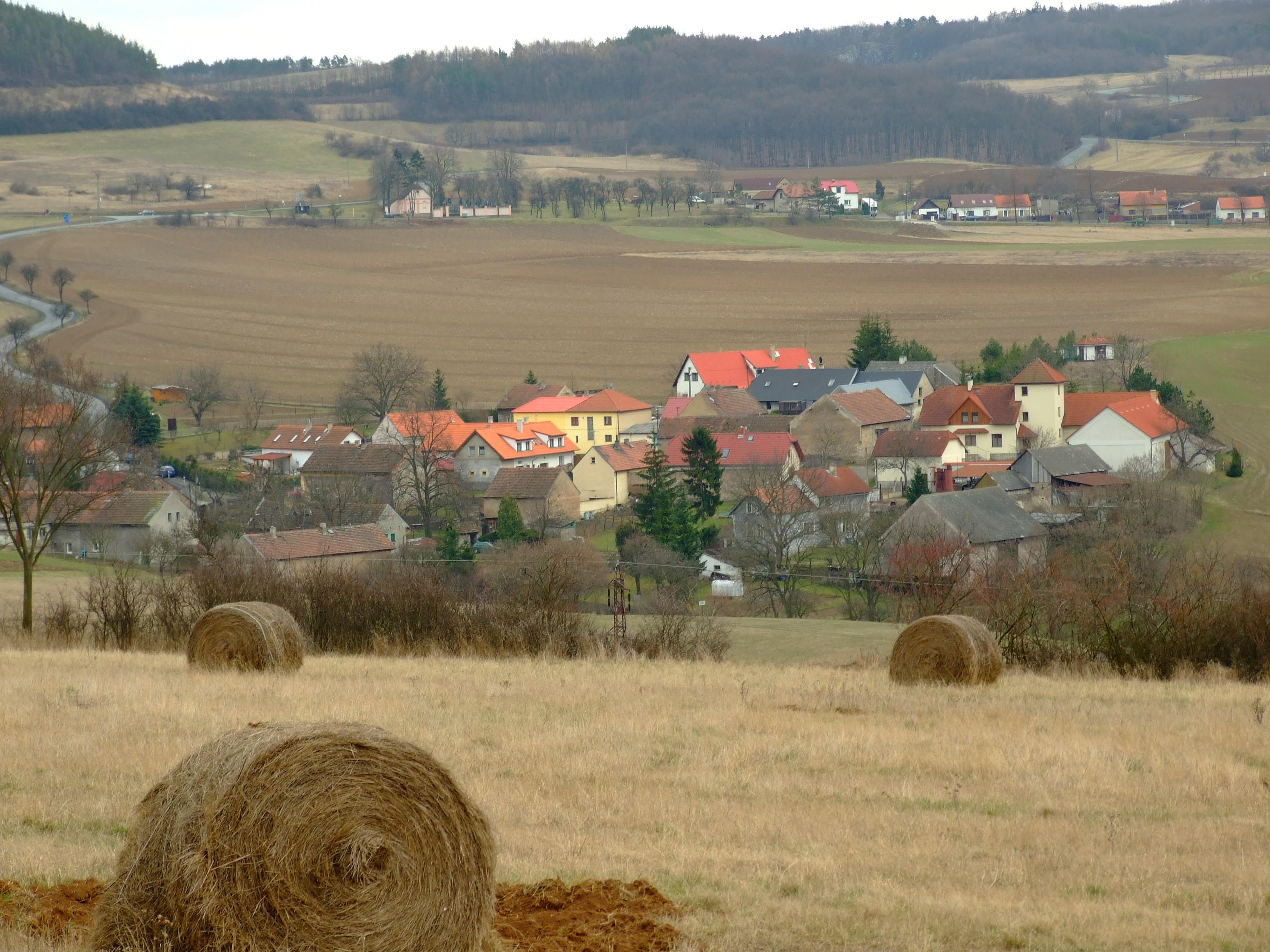 Town of Koněprusy and surrounding nature in Central Bohemian region, CZhelp